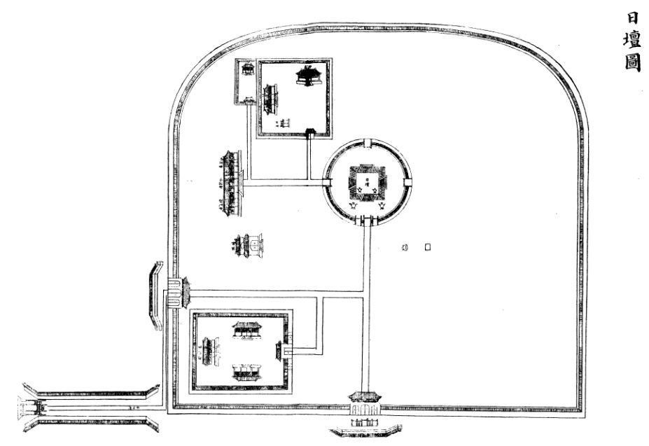 Temple of the Sun (a Qing Dynasty map)